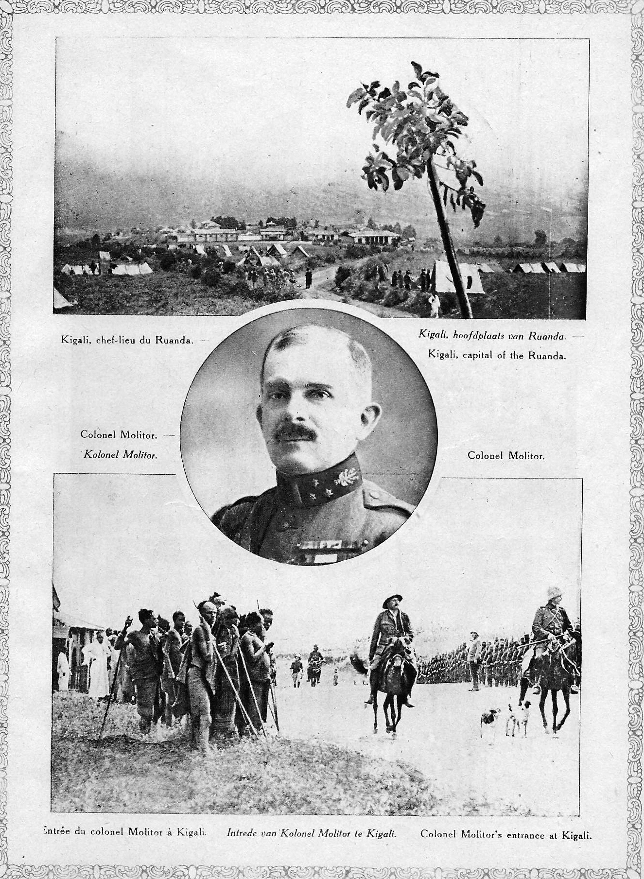 Colonel Molitor visiting the Belgian troops in Kigali, Rwanda (full name: Philippe Molitor?)